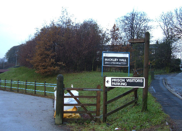 Buckley Hall Prison, Rochdale. An attractive entrance to this Young Offenders' Institution off Buckley Lane. The gate in the foreground is not the prison gate.